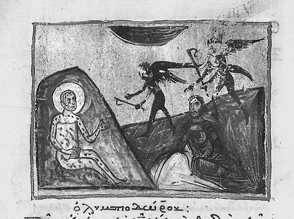 Book of Job in Illuminated Manuscripts.List of Byzantine Manuscripts with Cyclic Illustration.Rome:Biblioteca Apostolica Vaticana